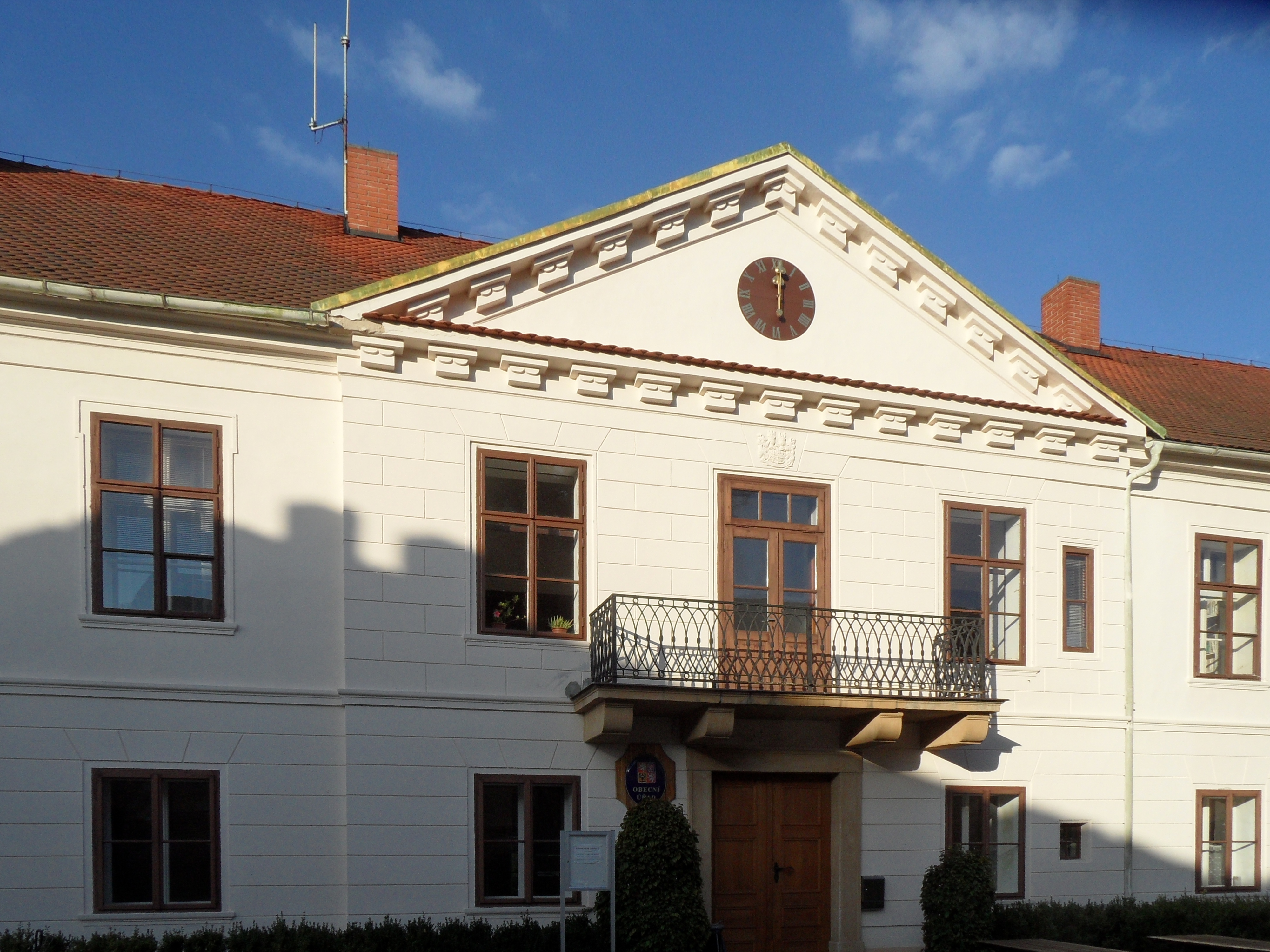 Horka II C. Municipality Office (in the Premises of Chateau), Kutná Hora District, the Czech Republic.